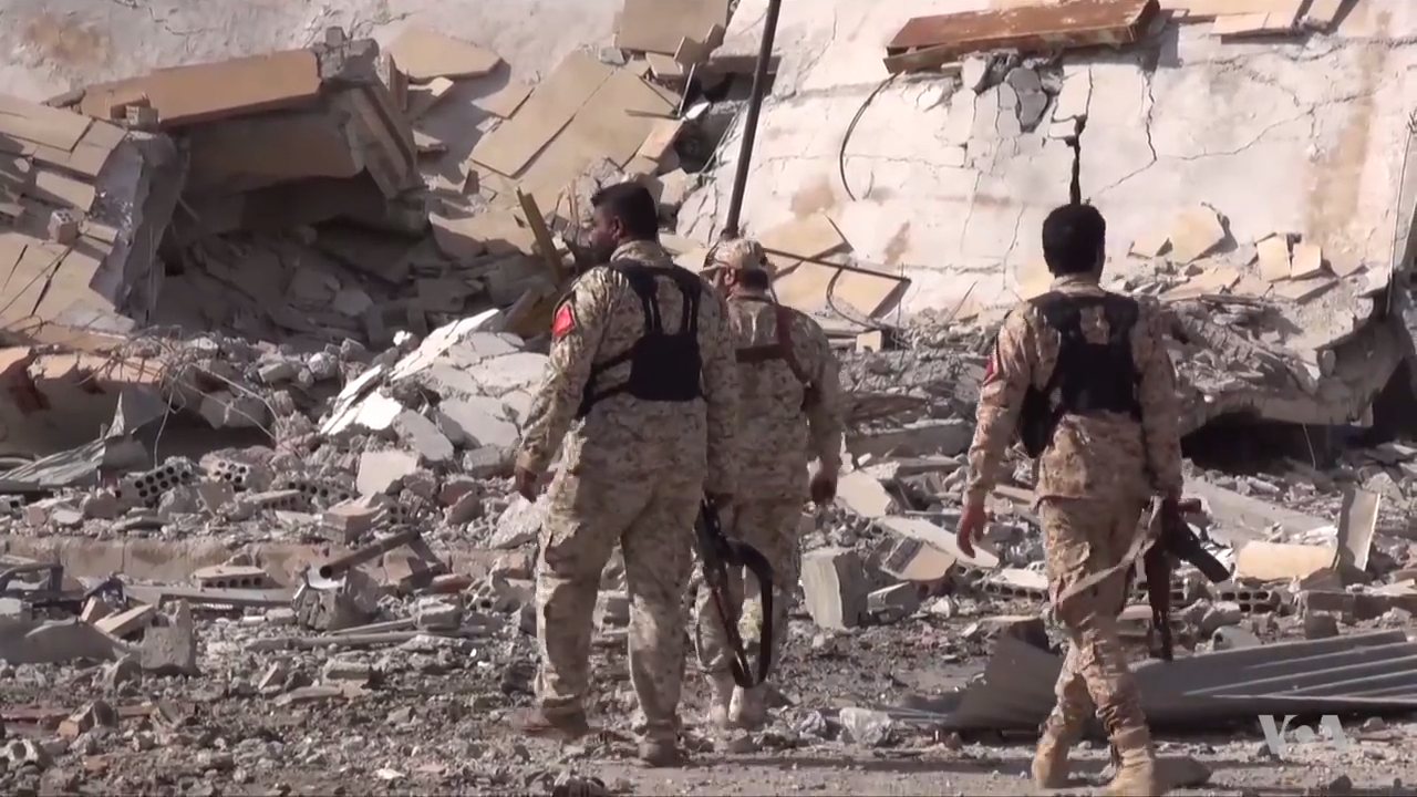 The Sanadid Forces in the town of Shaddadi, northeastern Syria, after the offensive in early 2016.